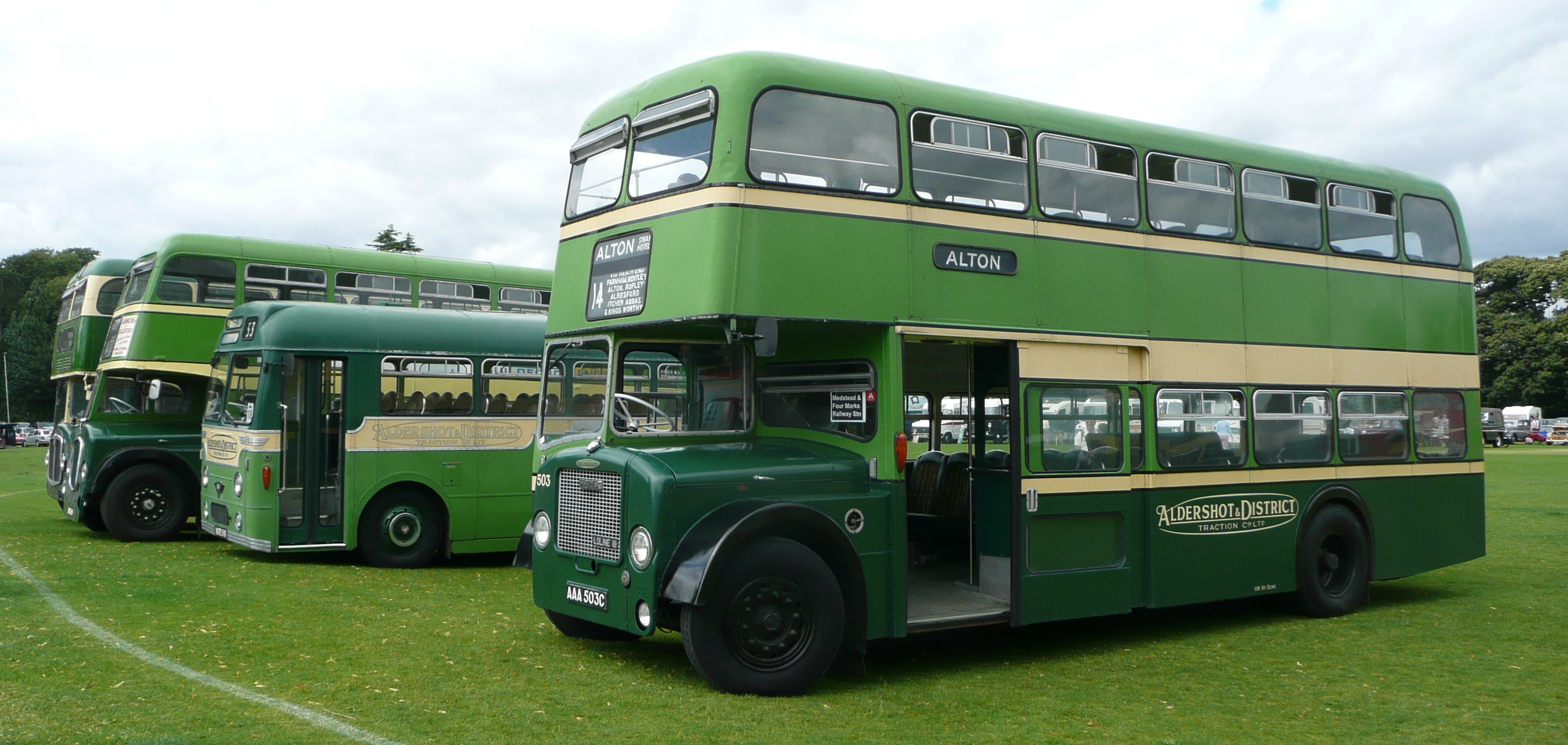 Three preserved Aldershot & District Traction vehicles at a bus rally in Alton, Hampshire. From nearest to the camera are buses 503, 543 and 357. The vehicle at the far end is a vehicle owned by King Alfred Motor services.